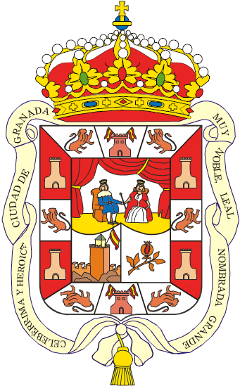 Coat of arms of the city of Granada (Spain)